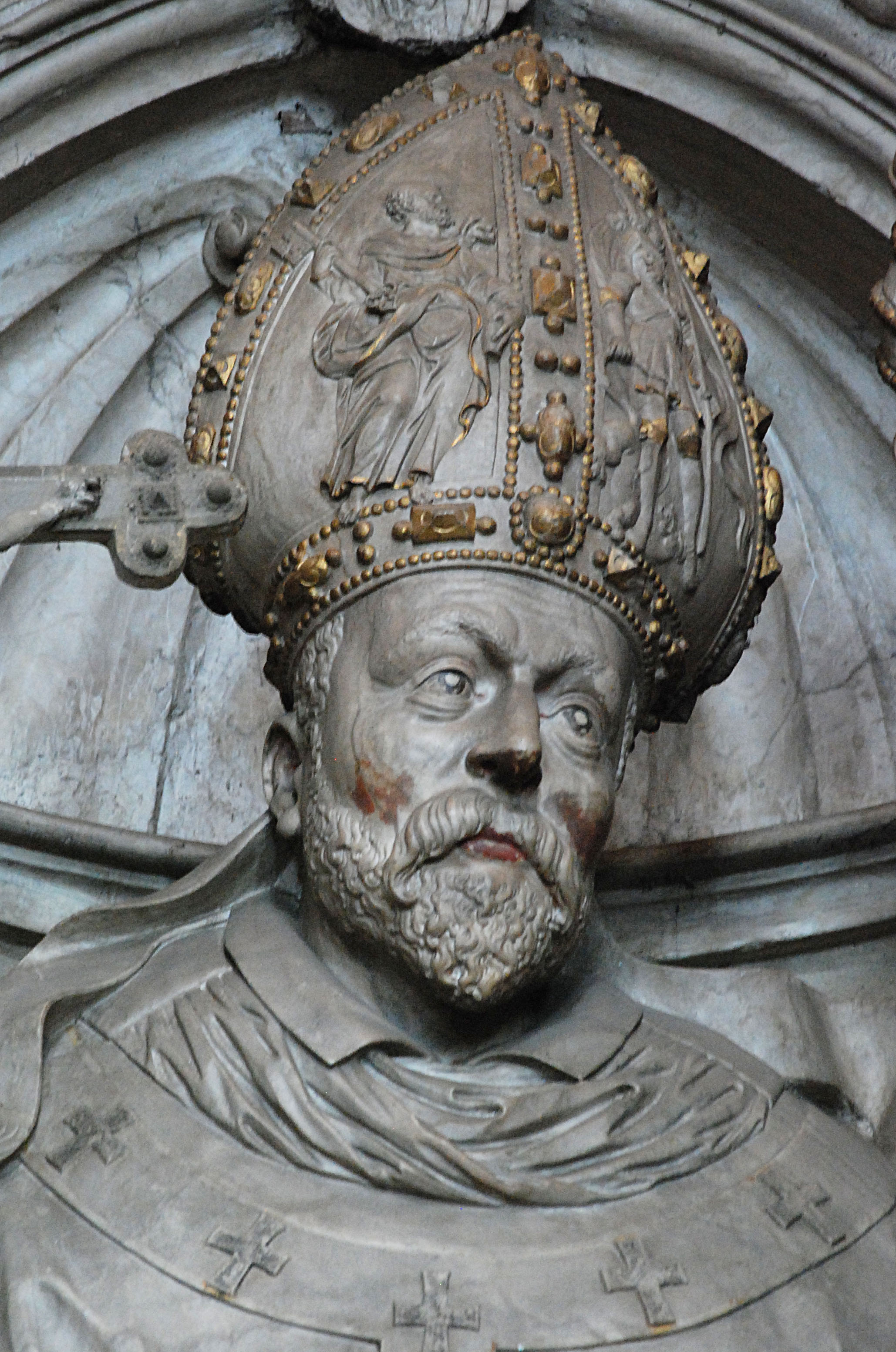 detail photograph of Neidhardt von Thüngen, Prince-Bishop of Bamberg, grave monument at St. Michael's in Bamberg, made by Michael Kern about 1610